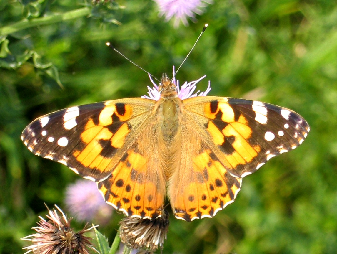 Vanessa cardui. Picture taken in Ename, Belgium Tim Bekaert (July 12, 2005)